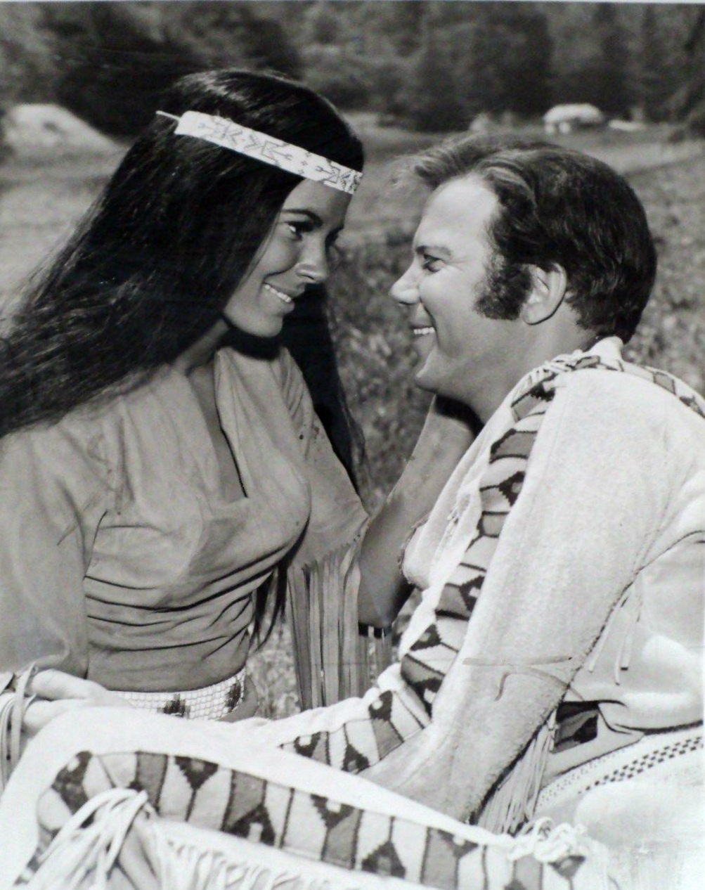 A photograph of William Shatner as Captain James T. Kirk and Sabrina Scharf as Miramanee from the Star Trek: The Original Series episode "The Paradise Syndrome". The photo has no copyright markings on it as can be seen in the links below.